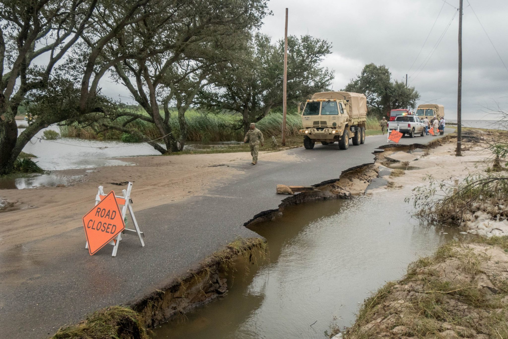 A roadway in Jackson County is closed after being washed out by Hurricane Nate on October 8, 2017.